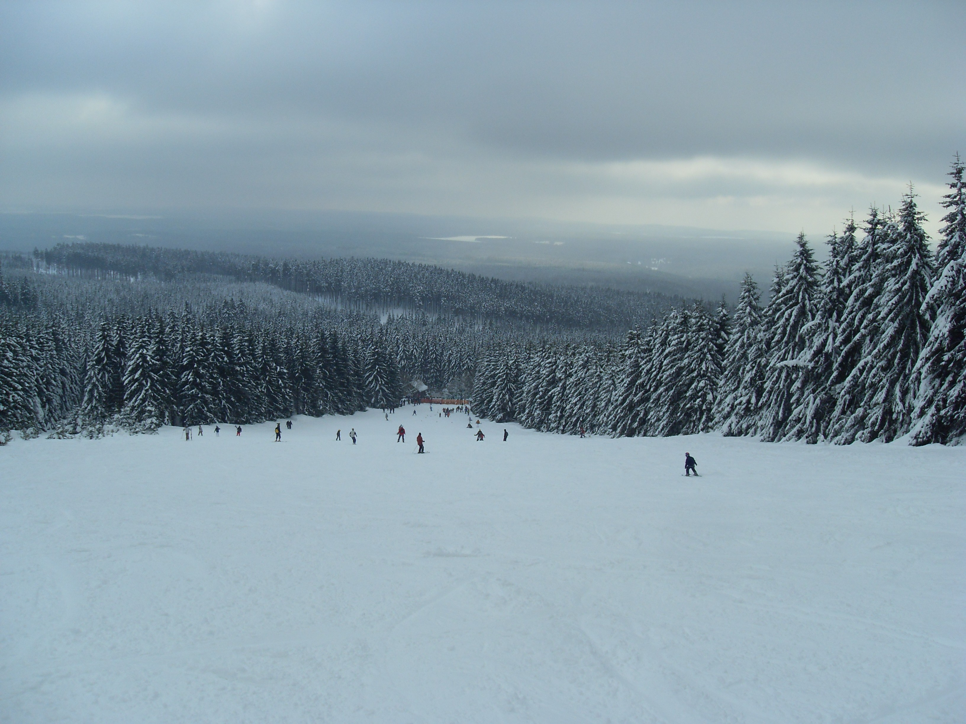 Ski-run from the hill Wurmberg close to Braunlage in the Harz, Germany.